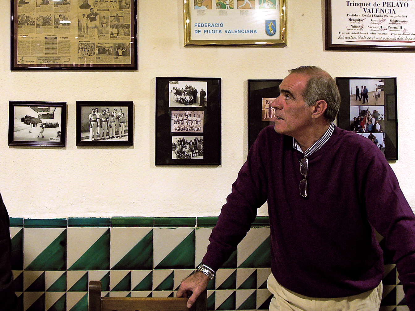 Valencian sports entrepreneur Arturo Tuzón Jr, at Pelayo's pelota trinquet, which he managed from 1980 to 2015Euskara: Valentziako enpresaburua Arturo Tuzón Gómez (Bilbo, 1954) trinketa etorri Pelayo